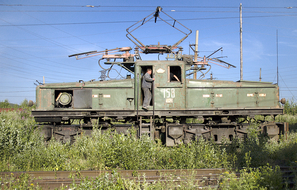 Soviet industrial electric locomotive IV-KP1 (IV-КП1).